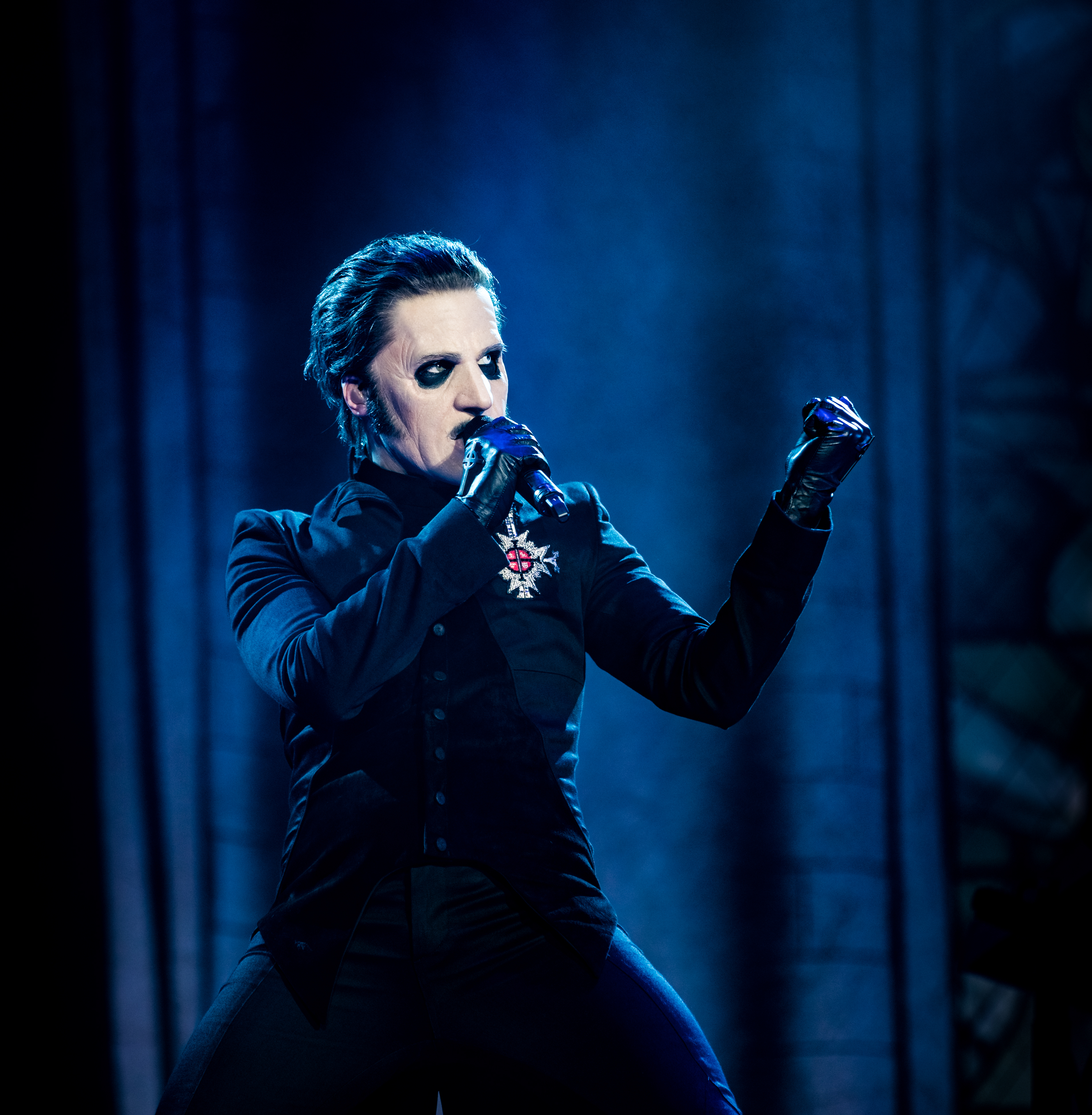 Ghost - Wacken Open Air 2018